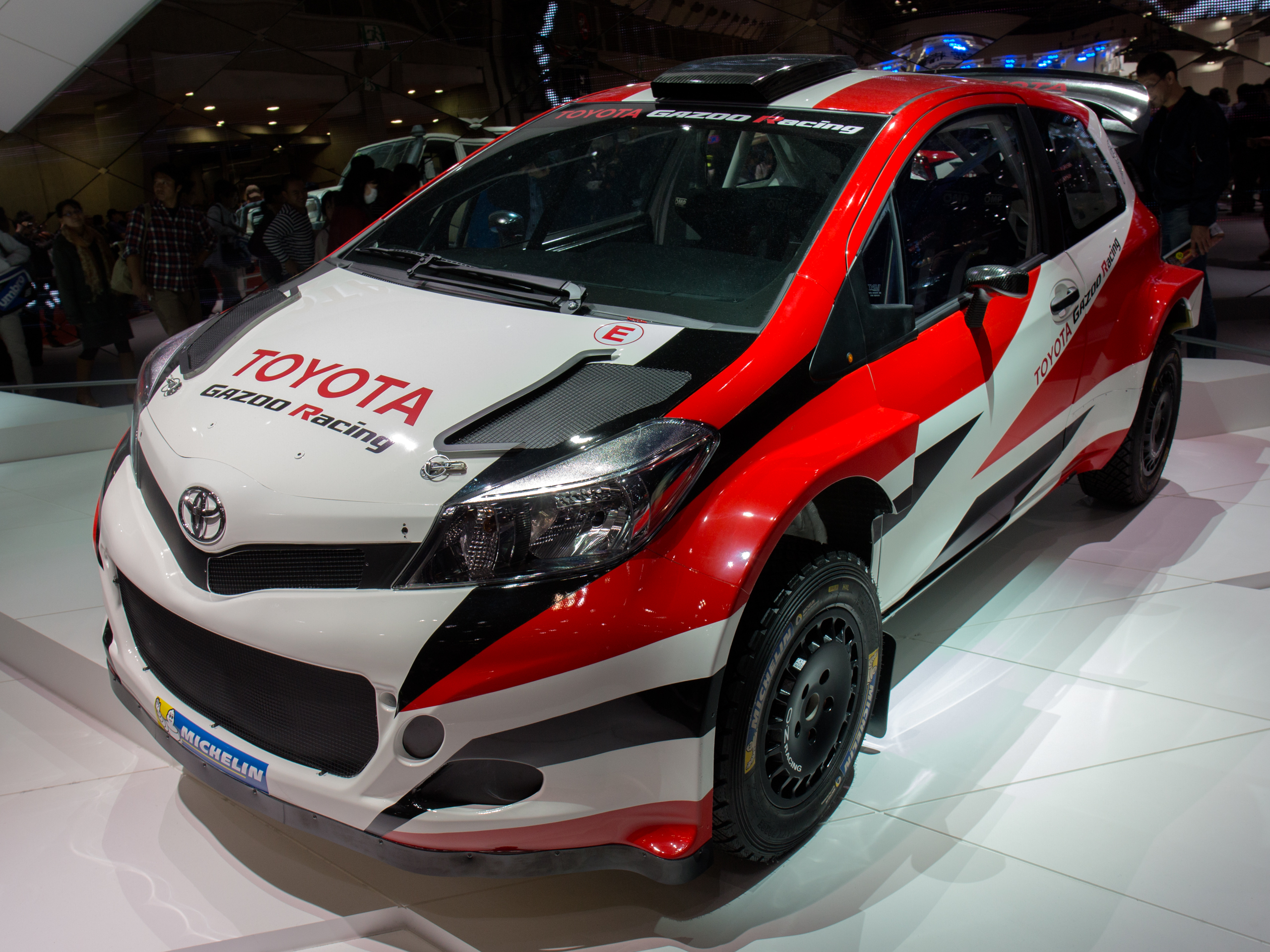 Tokyo Motor Show 2015: Toyota Yaris WRC